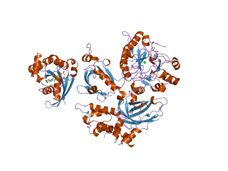 Cartoon representation of the molecular structure of protein registered with 2fju code.